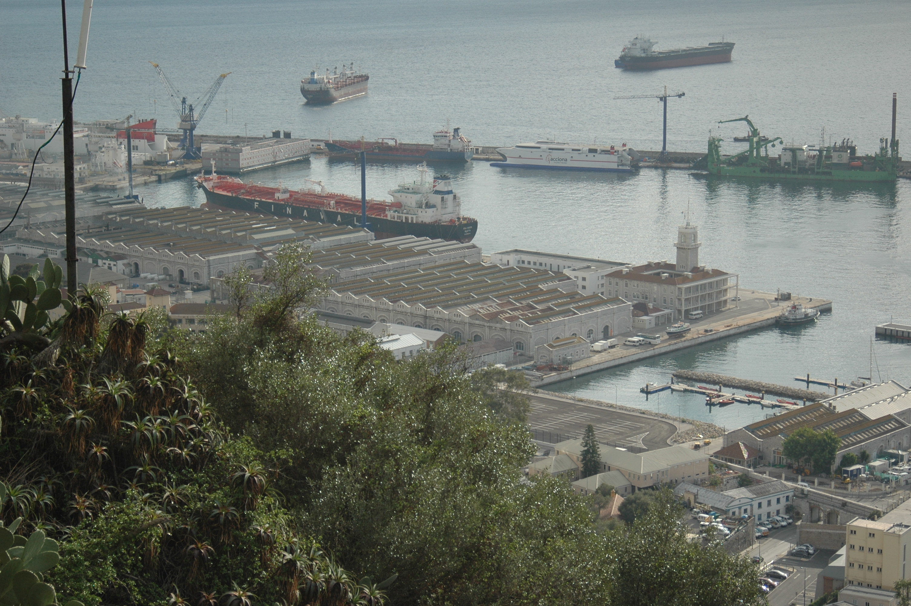 Gibraltar Naval dockyard and South Mole